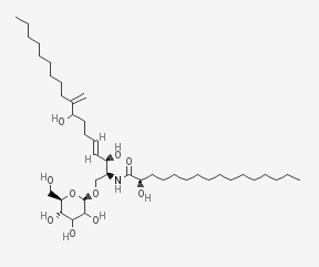 Termitomycesphin A